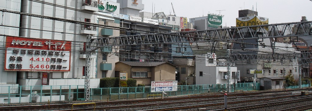 Love Hotels at JR-station Uguisudani, Tokyo